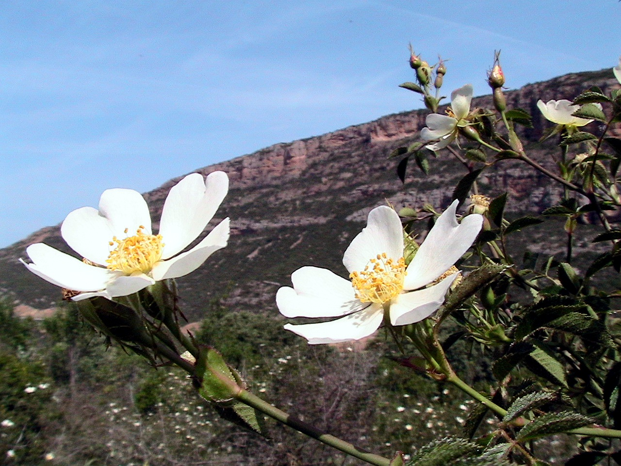 Rosa canina. In Camarasa (Noguera- Catalunya). To 480 m. altitude